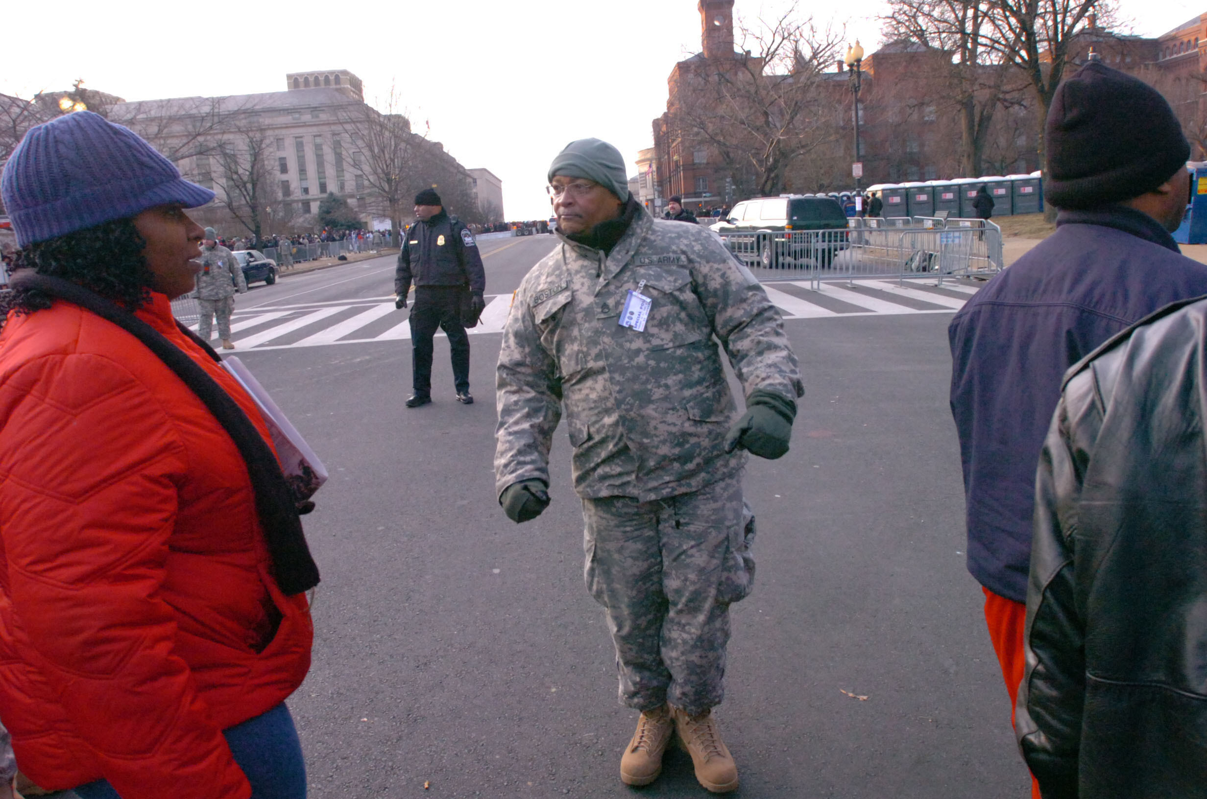 Staff Sgt. Norman Boston, an operations sergeant with Headquarters and Headquarters Company, 1st Squadron, 158th Cavalry Regiment, moves for warmth while directing traffic before inauguration ceremonies for President Elect Barack Obama, Tuesday, Jan. 20. The unit, a part of the 58th Infantry Brigade Combat Team, assisted U.S. Park Police, Secret Service, and other federal agencies with crowd management.